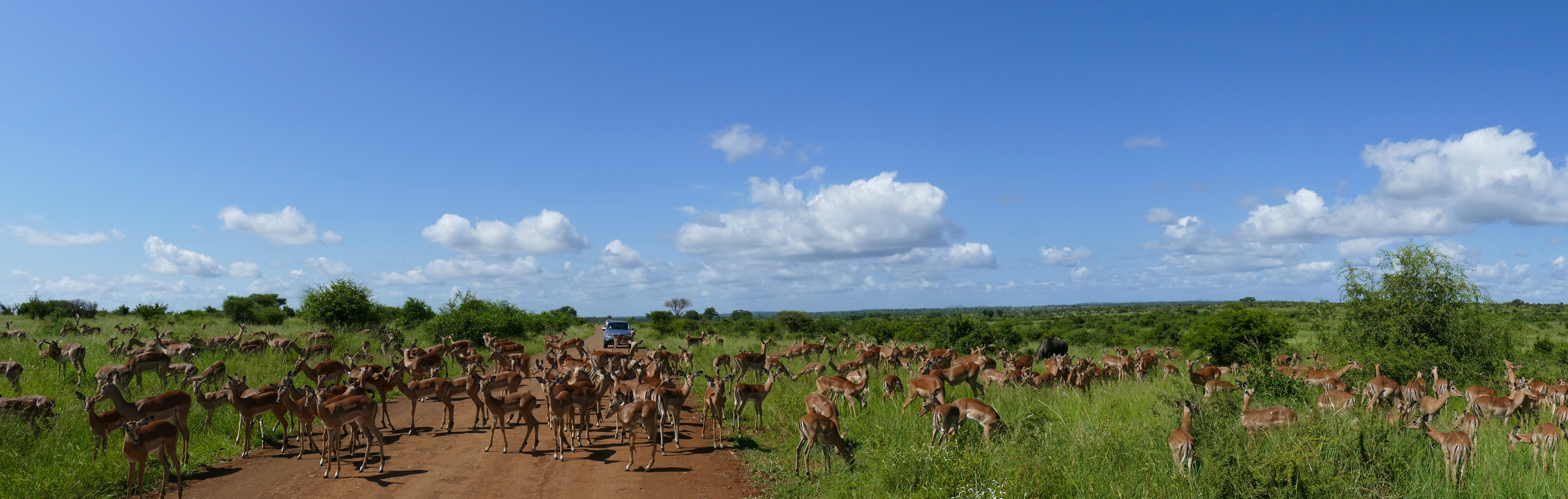 S28 Road South of Lower Sabie, Kruger NP, SOUTH AFRICA